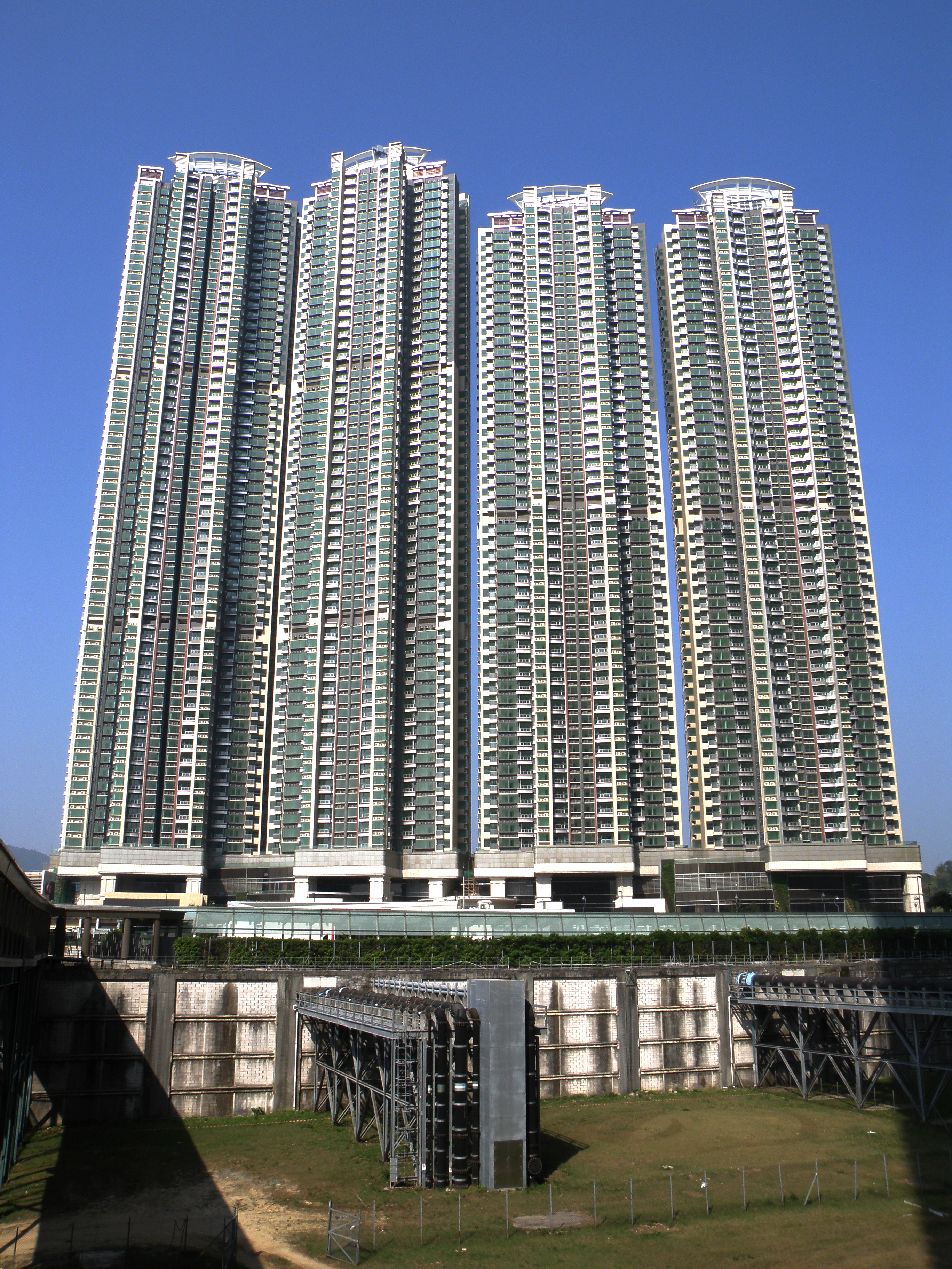 Hemera in Tseung Kwan O, Hong Kong.